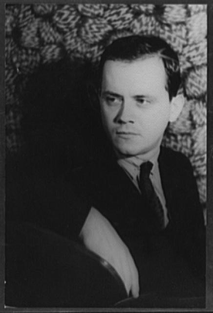 Title: Portrait of Beveridge Webster Abstract/medium: 1 photographic print : gelatin silver.